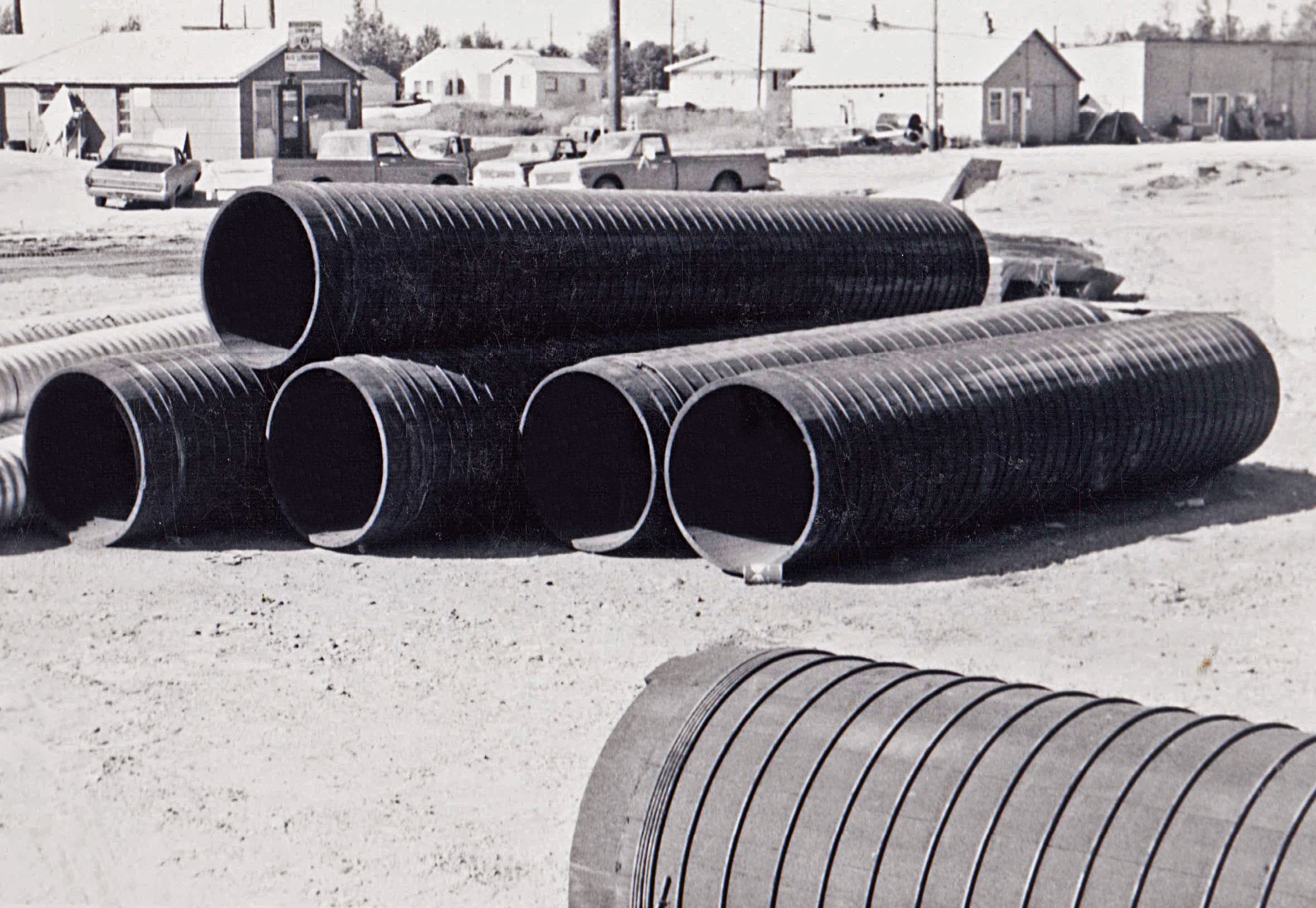 Wooden pipes of big diameters on a construction site in Alaska.